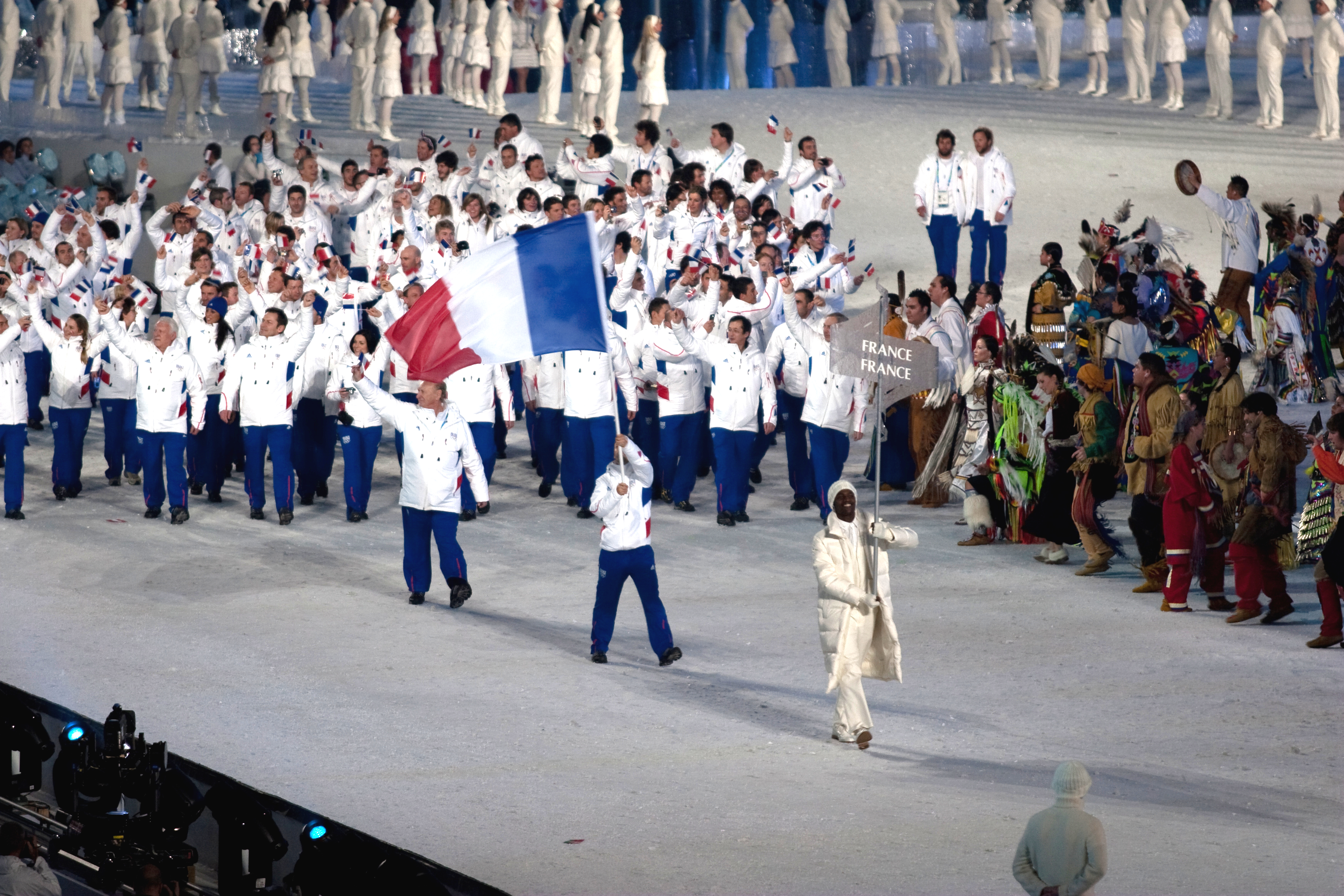 The athletes from France entering the stadium at the opening ceremonies of the 2010 Winter Olympics